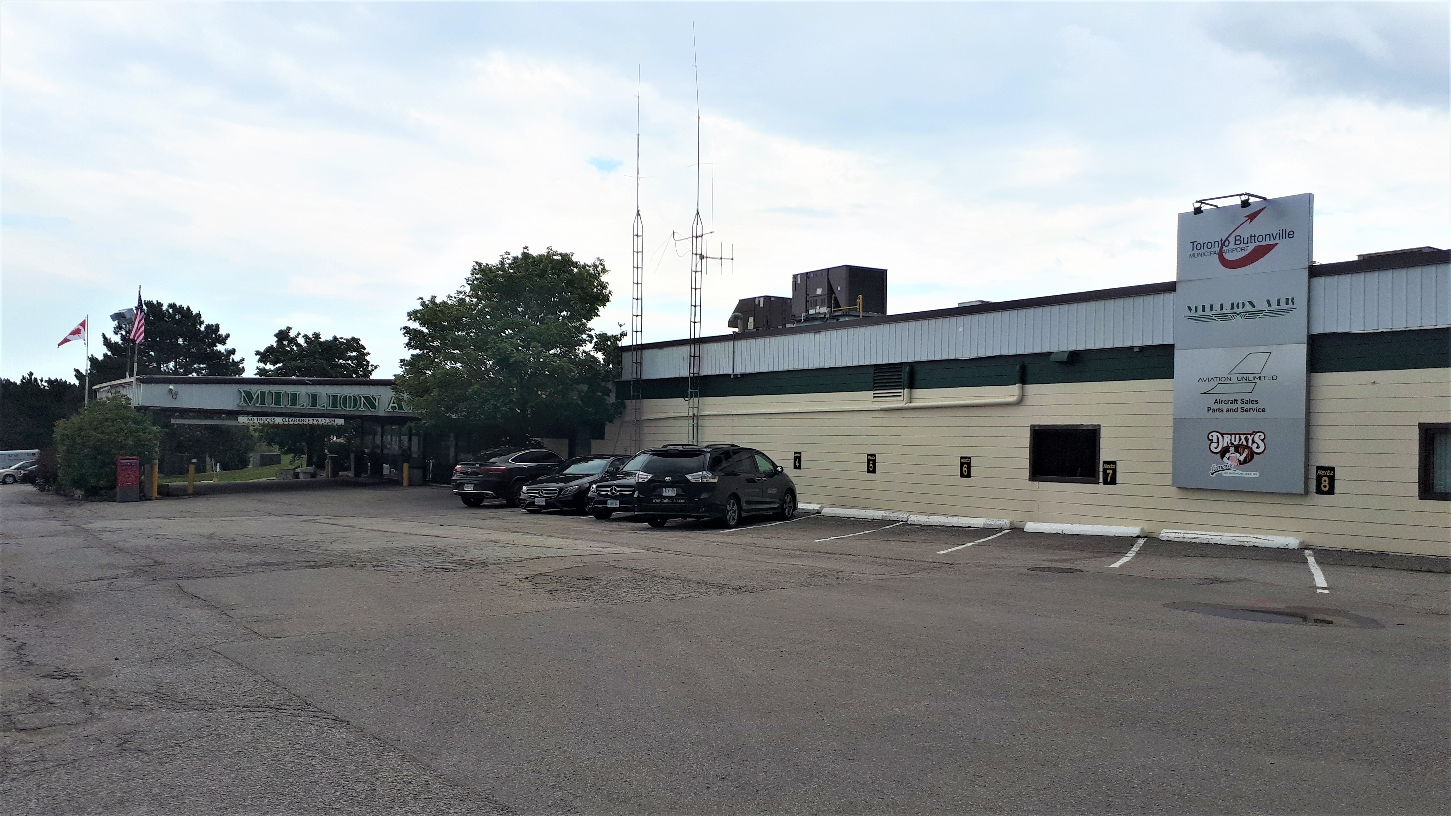 Buttonville Municipal Airport -Main Entrance -Markham-Ontario